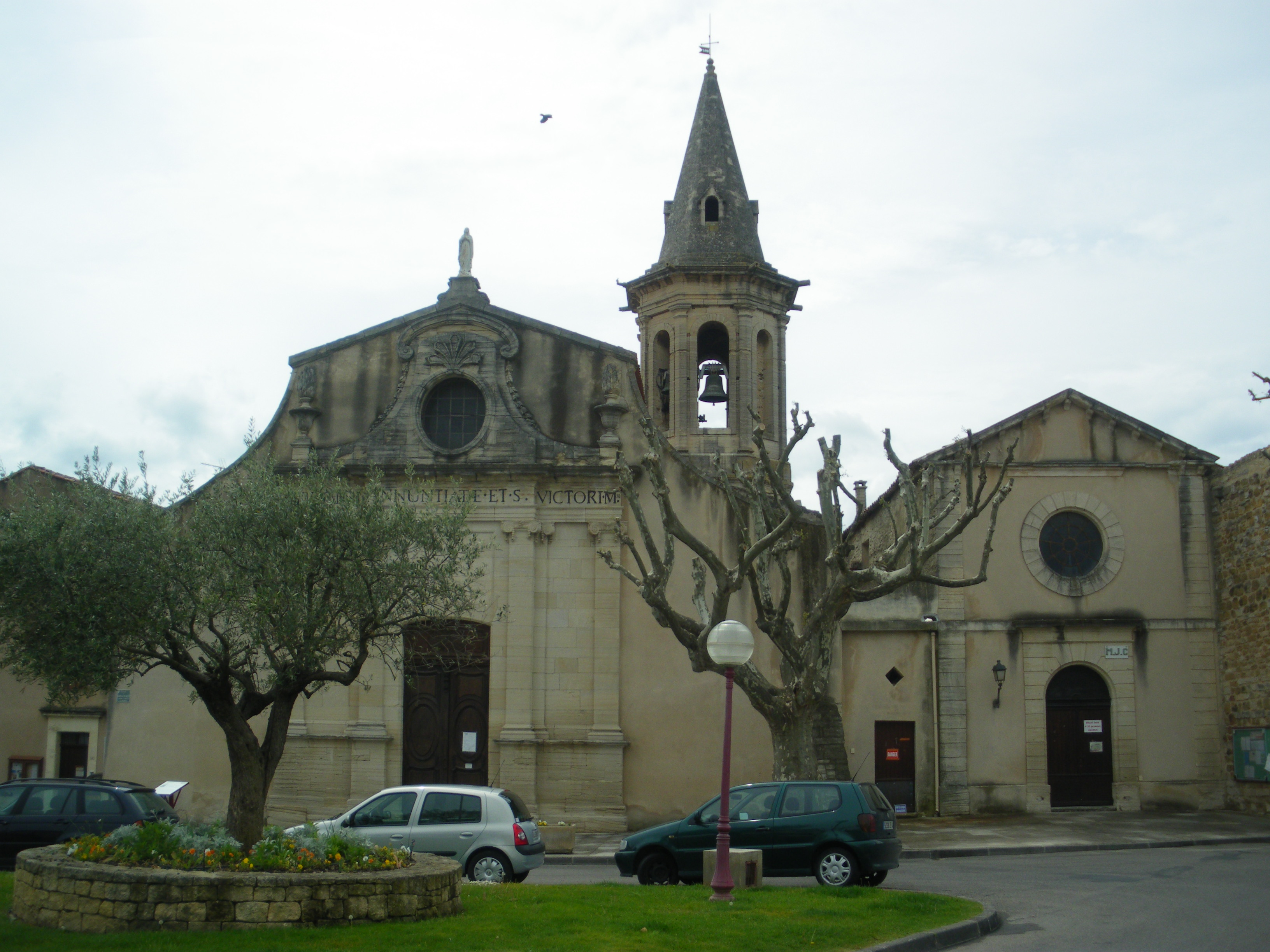 Aubignan church, Vaucluse, France